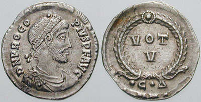 Silver siliqua of Procopius, usurper in 365-366 Procopius. 365-366. AR Siliqua (1.76 gm). Constantinople mint. D N PROCOPIVS P F AVG, diademed, draped and cuirassed bust right VOT V in two lines in laurel wreath; •C•Æ. RIC IX 13e.12; RSC 14d. Good VF. Very rare